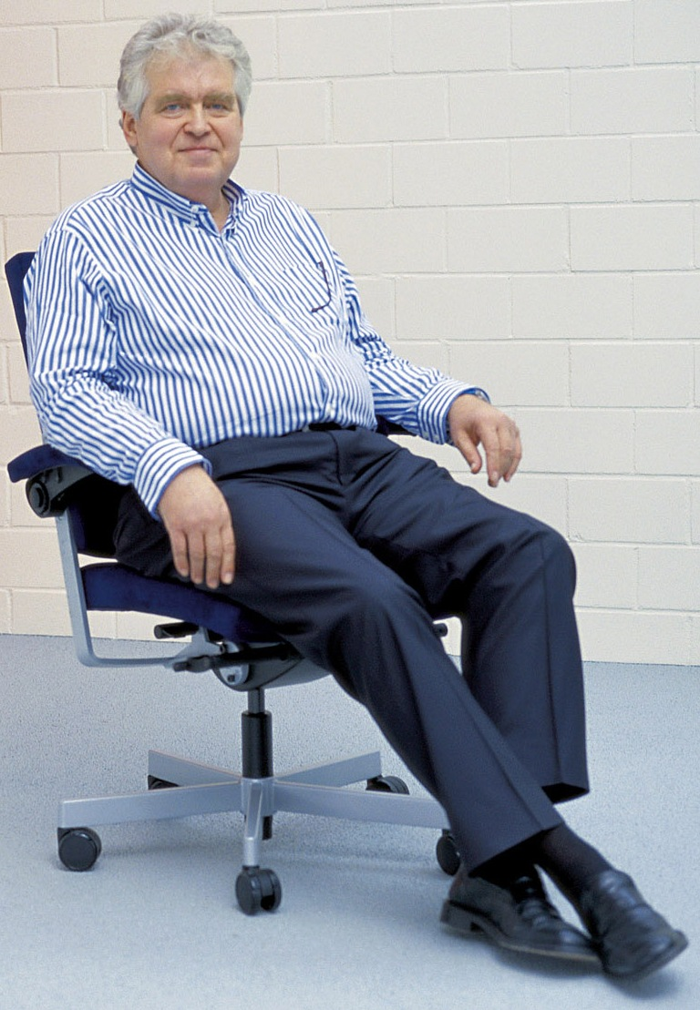 Ueli Witzig (born in 1946) is a Swiss designer.